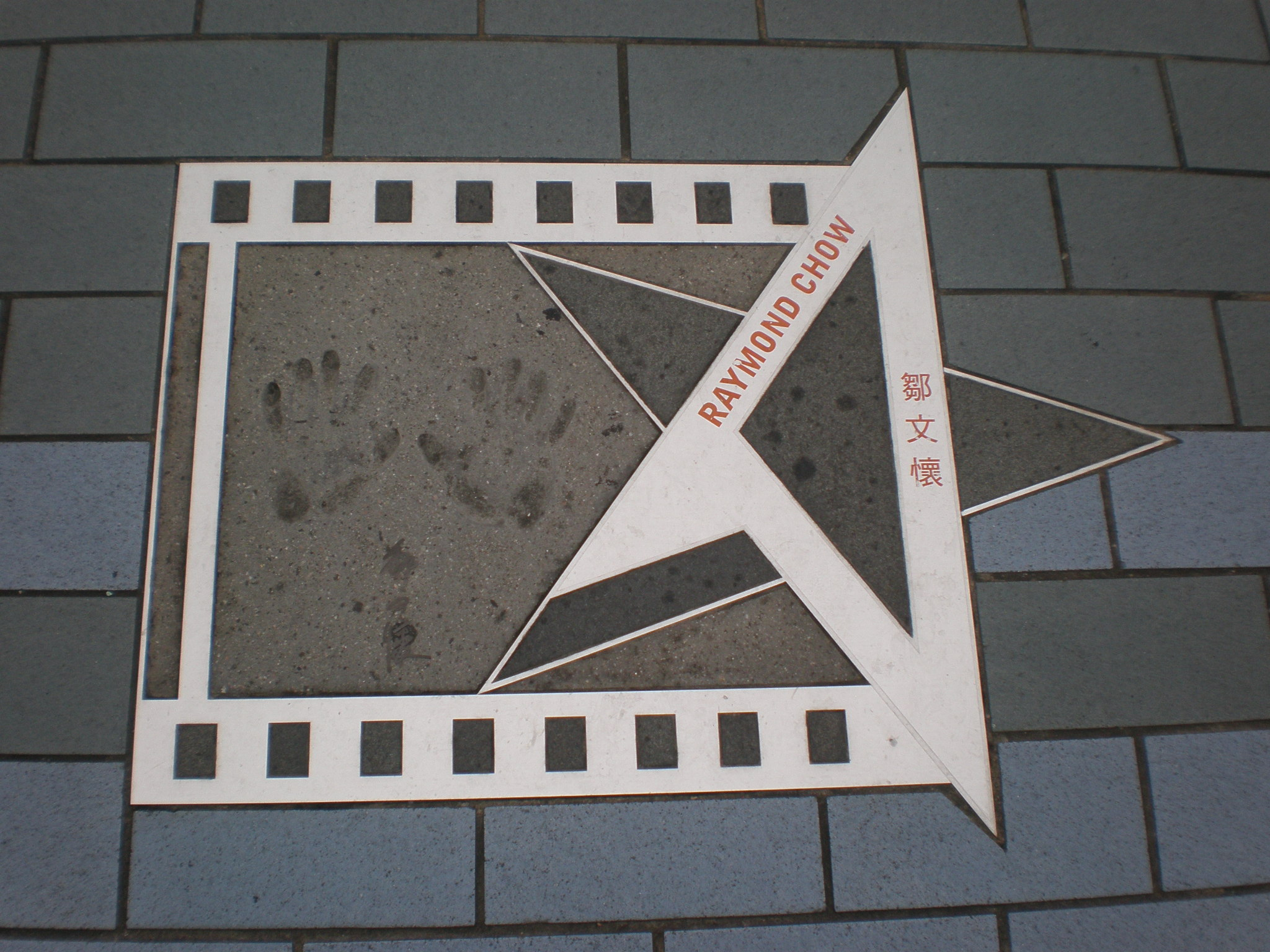 Star, hand prints and autograph of Raymond Chow on the Avenue of Stars in Hong Kong.